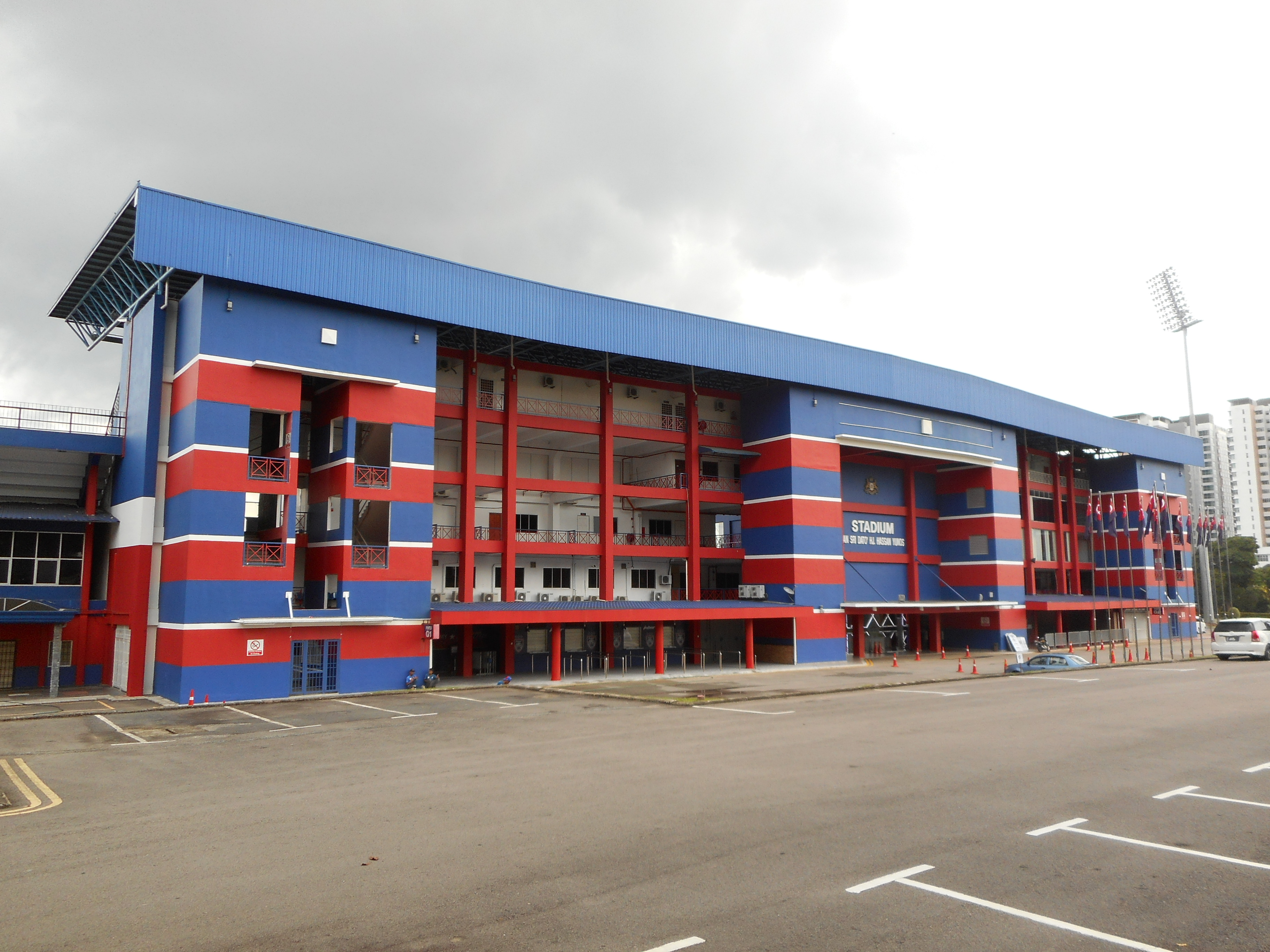 Tan Sri Dato' Haji Hassan Yunos Stadium, Larkin, Johor Bahru, Johor, Malaysia